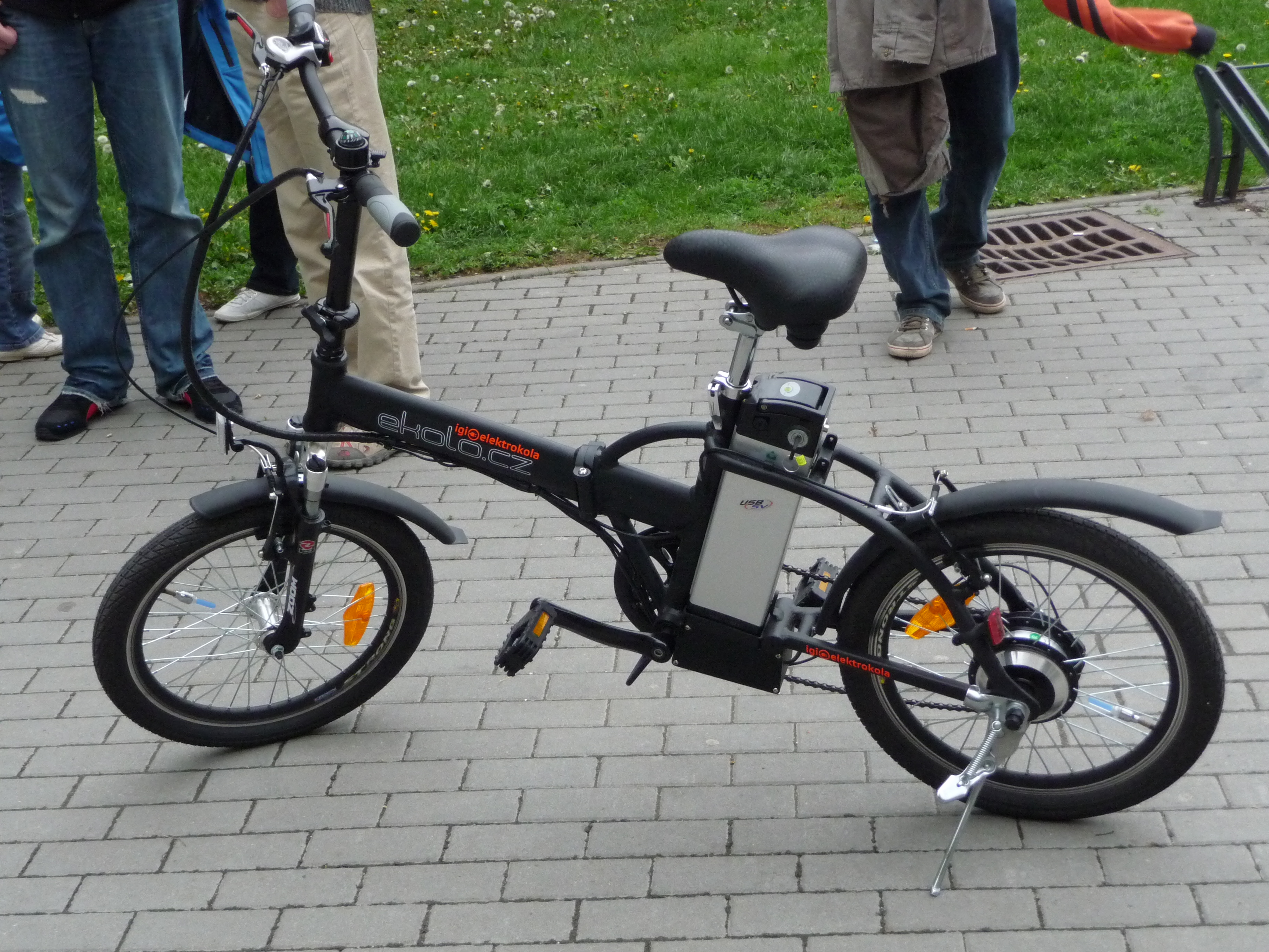 Electrically-powered bicycle after the lecture "Green economy"